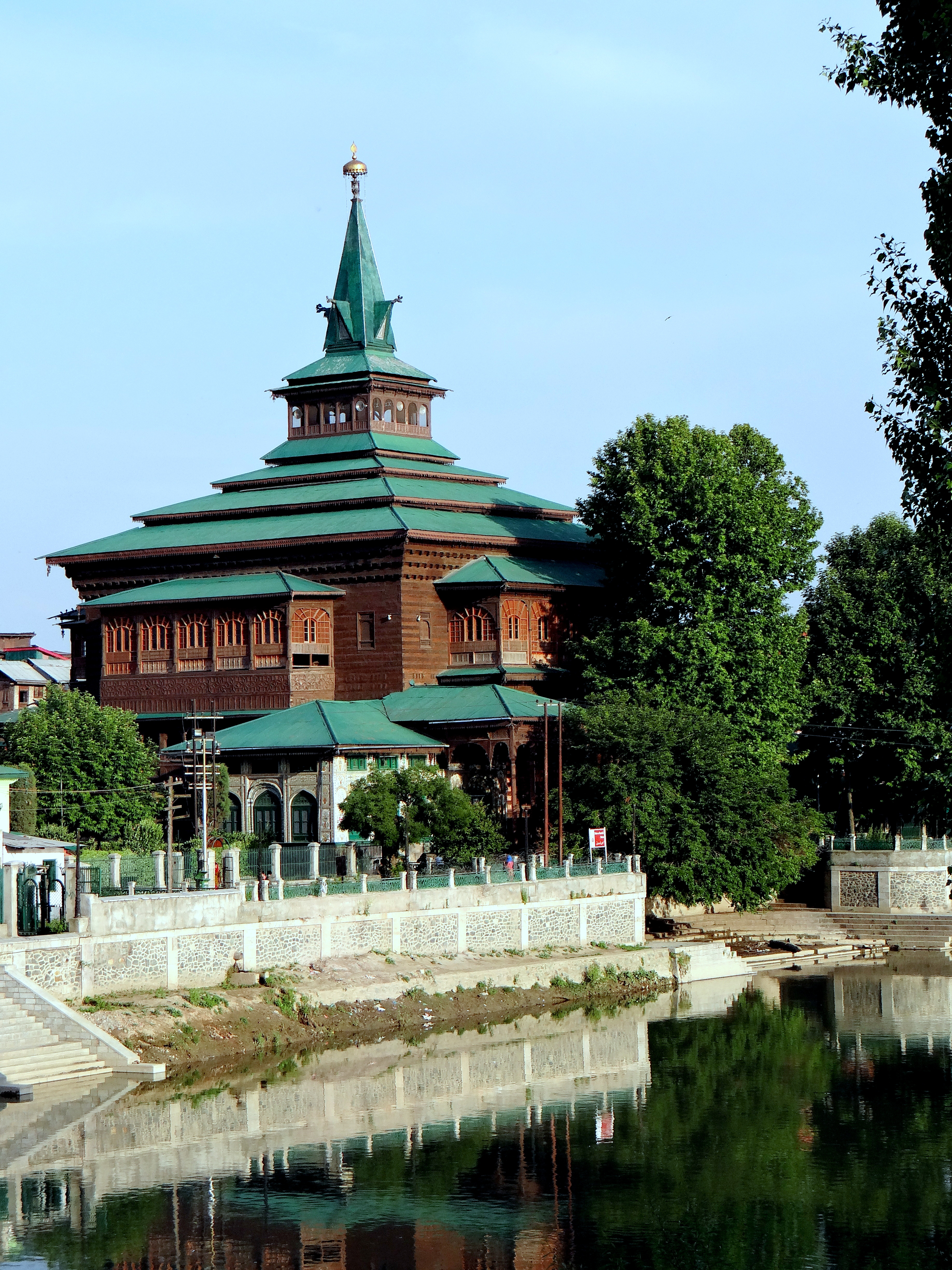 Khanqah of Shah Hamadan situated on the banks of river Jehlum